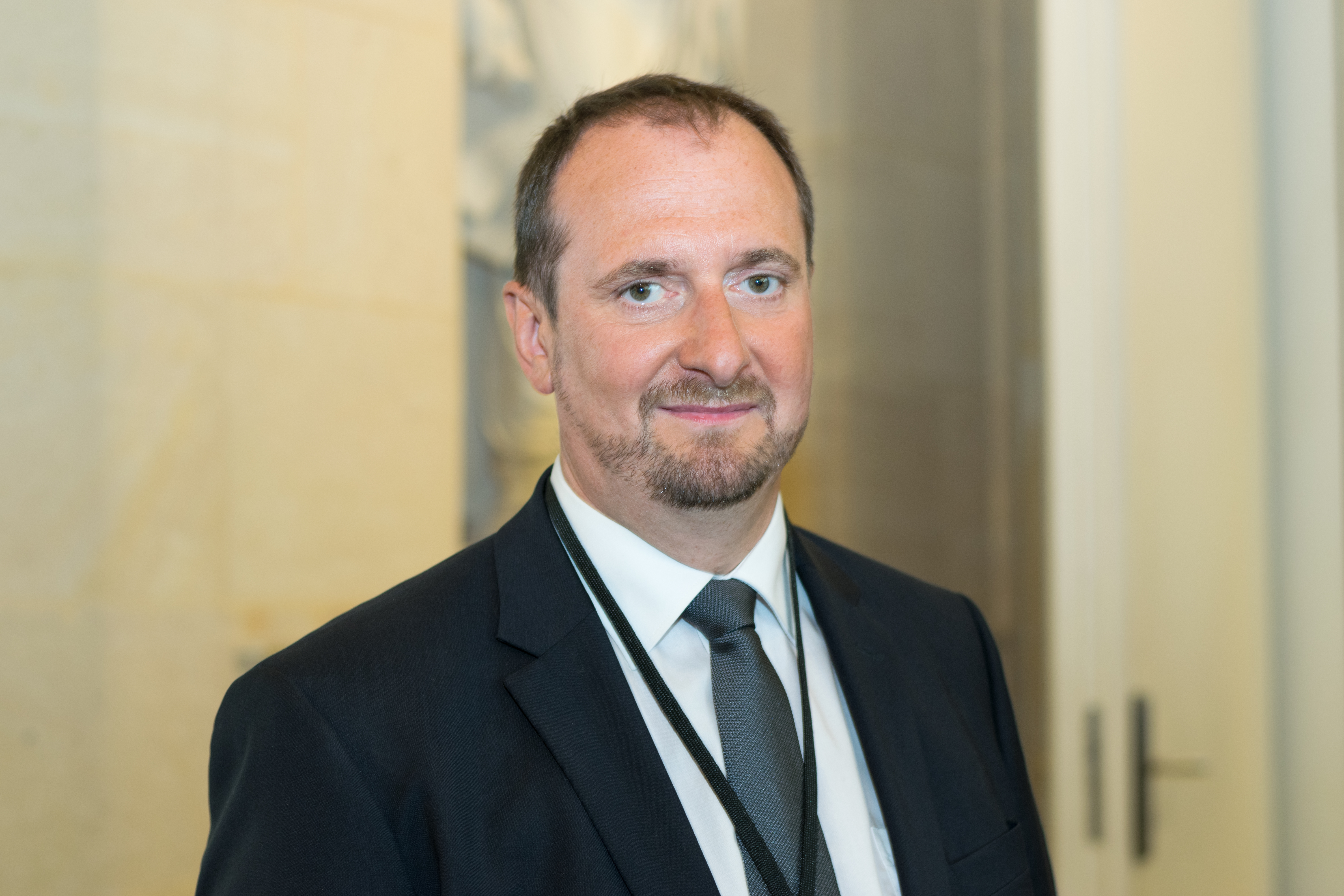 Christophe Arend in the salle des Quatres Colonnes of the Palais Bourbon (Paris, France).